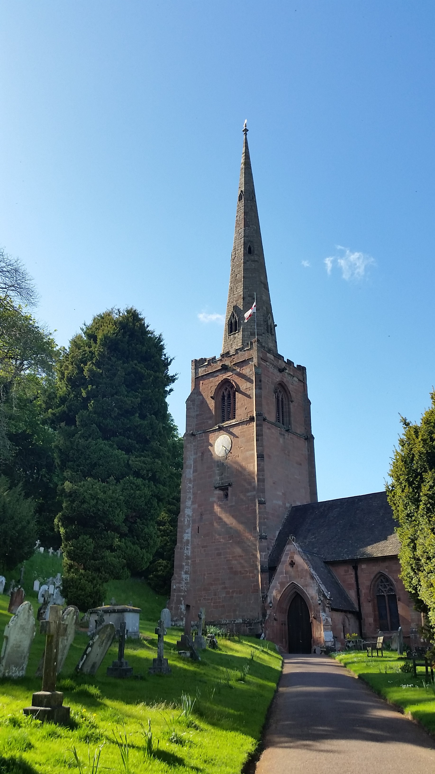 Worfield church, Main entrance and pathway